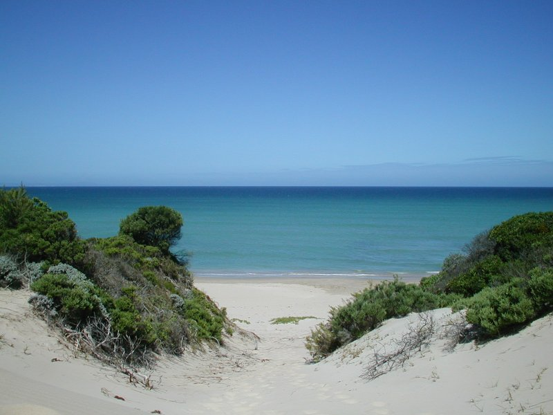 South Africa, Eastern Cape, Jeffrey's Bay Best dune to just sit, sip on a cold beer, relax and clear your mind Nick Roux 2002.